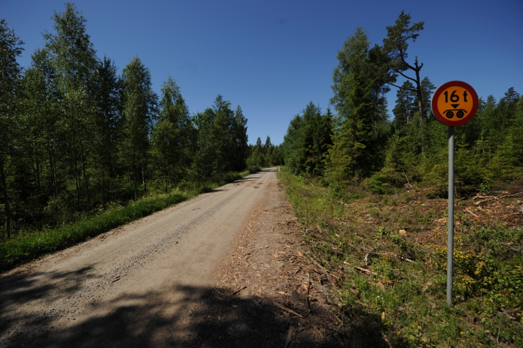 Forest road through south-eastern Närke. Gåstorpasjön .